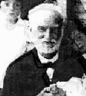 Agustín Ross, at the Gran Hotel Pichilemu.